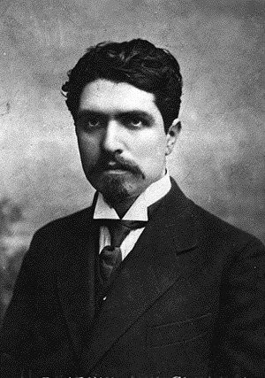 Stepan Shahumyan, a Soviet-Armenian revolutionary.